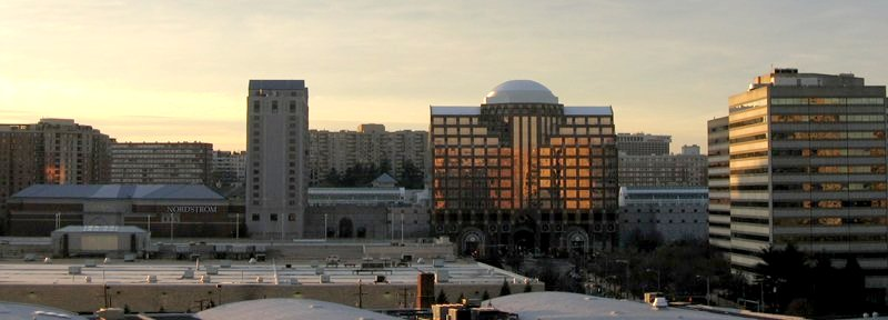 Pentagon City, Virginia. Digital photo by User:Postdlf, 11-29-04.